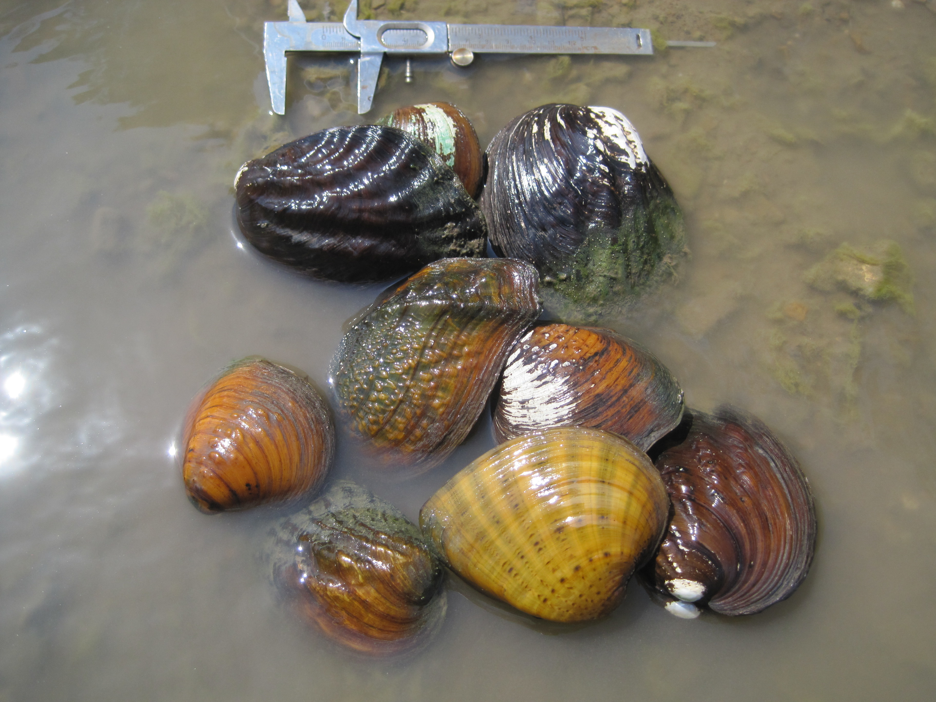 Freshwater Mussel during Species Survey Marais des Cygnes National Wildlife Refuge 2011